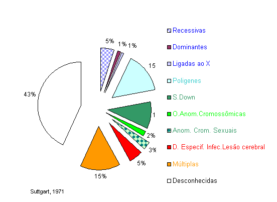 Genetics cause of mental retardation. from Penrose, graphic adaptation from: Pessoa, Oswaldo Frota; Otto, Priscila G; Otto Paulo A. Genética Humana. RJ: Francisco Alves, 1976 p. 279